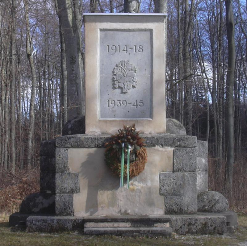 War memorial on the "Hohe Warte", a hill of the Swabian Jura, Germany